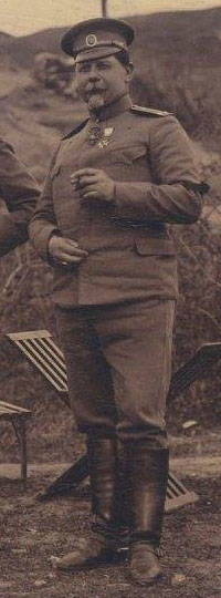 Boris Strezov, Petar Darvingov, Alexandar Protogerov, Krastyo Zlatarev, Peyu Banov - officers of the Bulgarian 11th Division in WWI.